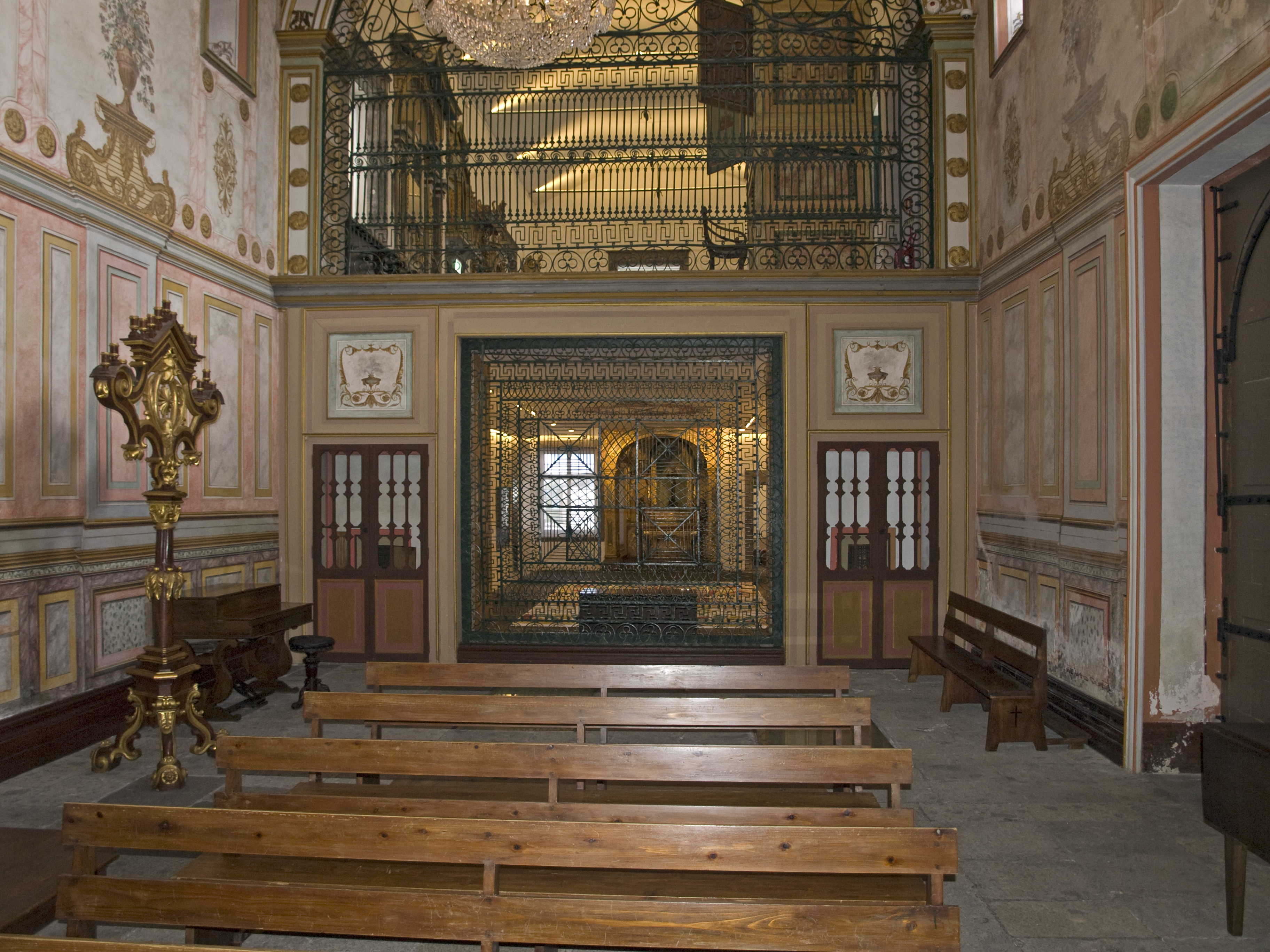 Chapel of Convent of Santo André, Ponta Delgada